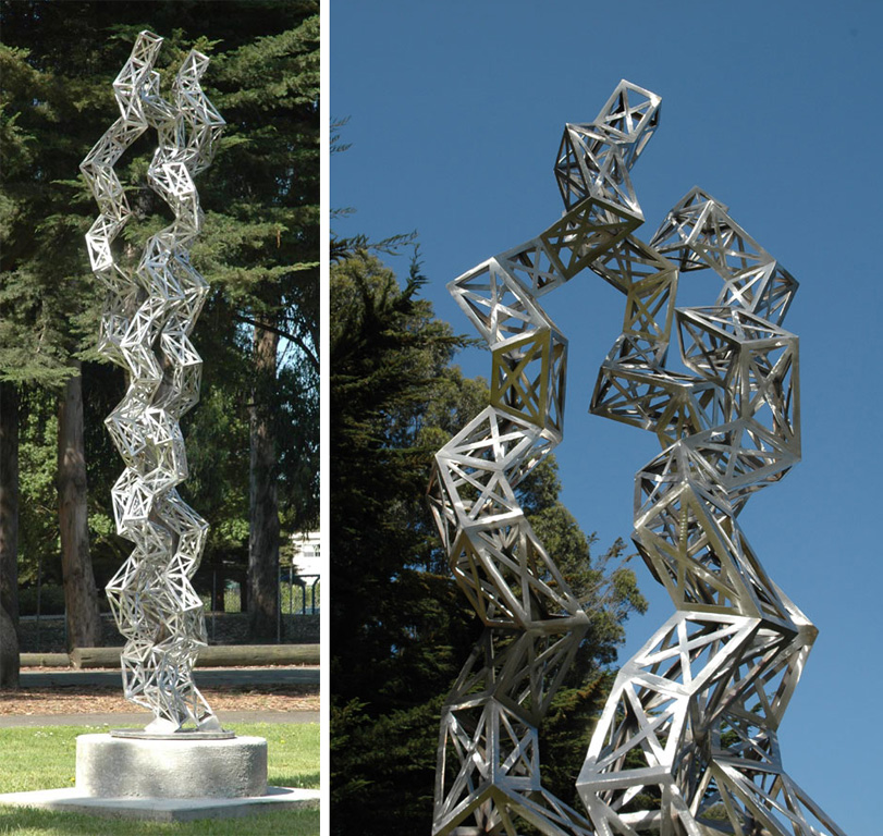 "Unraveling Collagen", 2005, stainless steel, height: 11'3' (3.40 m).